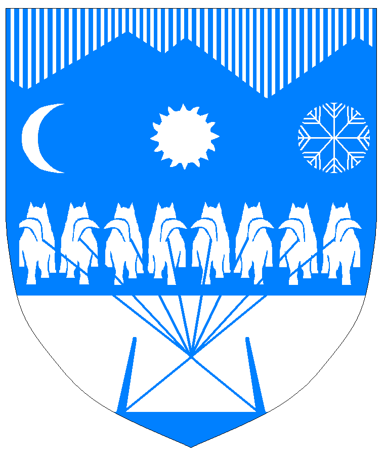 Coat of arms of the new Qaasuitsup municipality in Greenland. Emerson